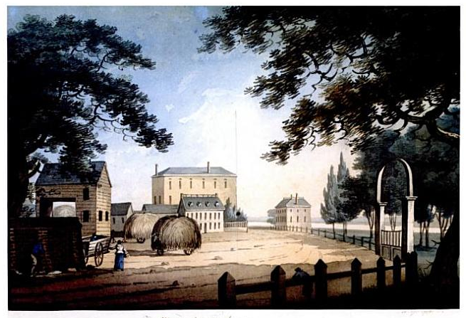 Art work by A. Robertson of Tremont Street, Boston, 1798. Includes view of Haymarket Theatre.